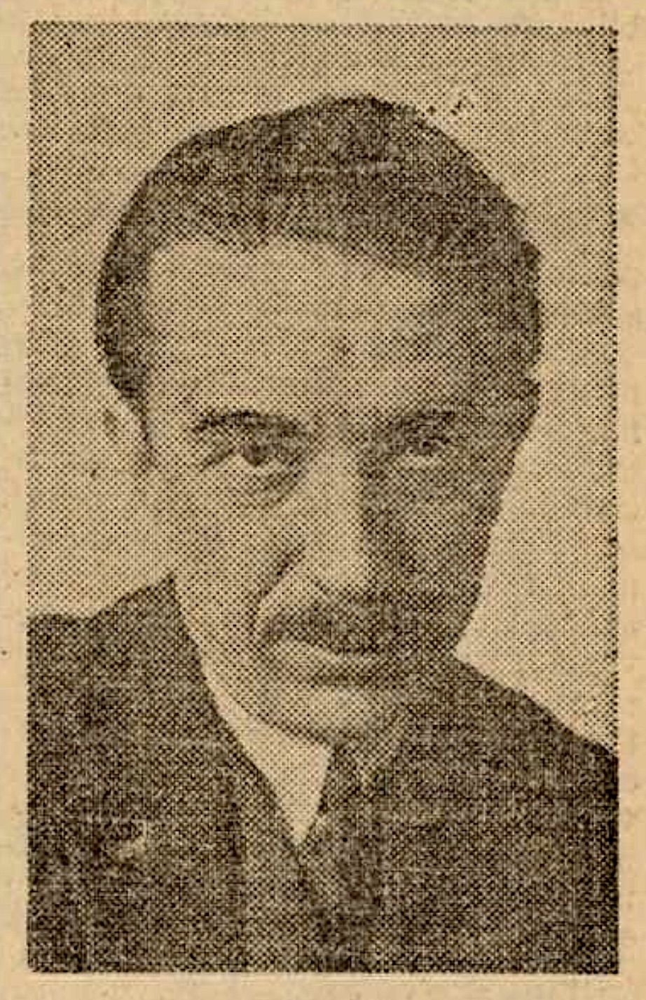 Romanian journalist and novelist Dem. Theodorescu.